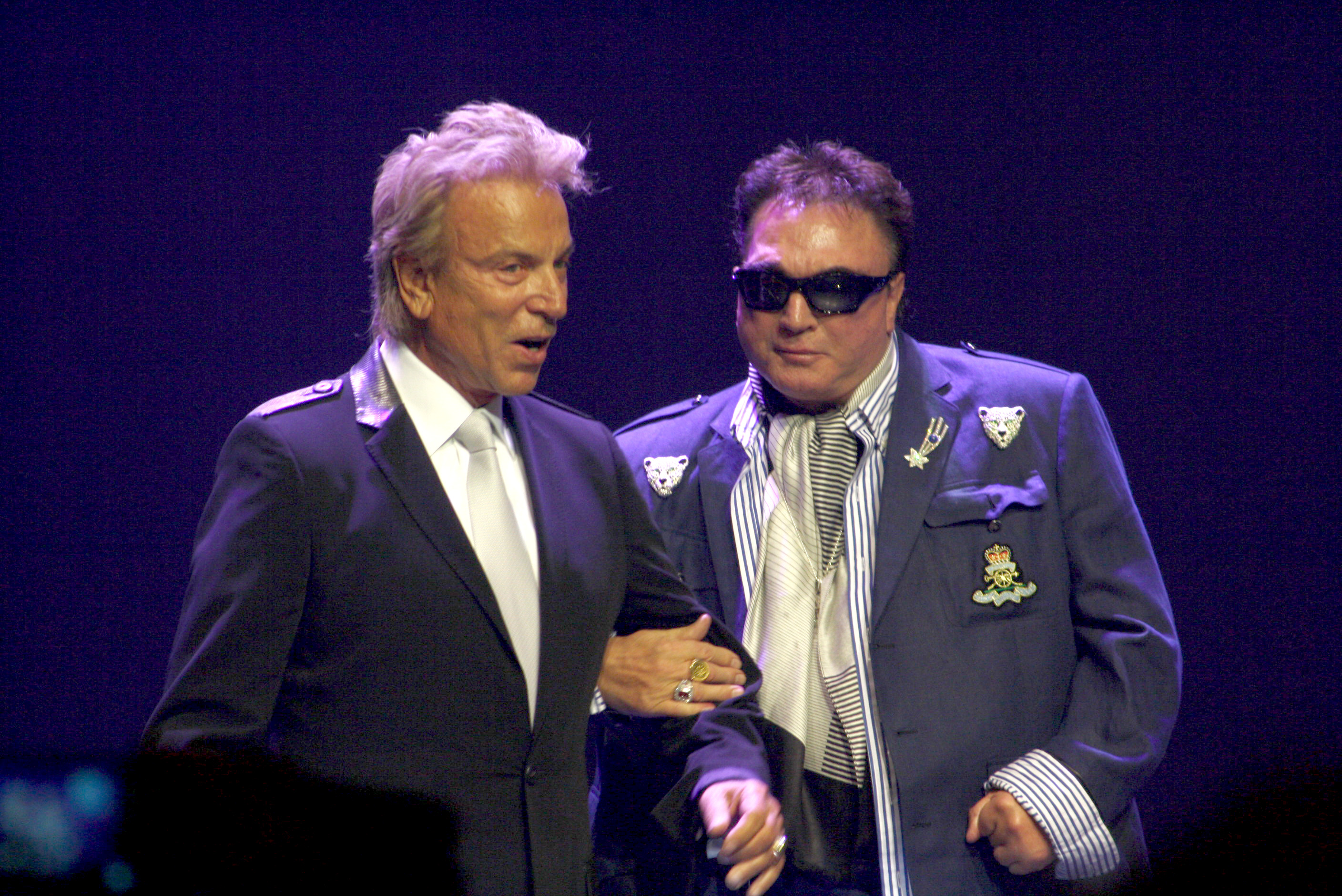 Siegfried and Roy make a guest appearance at the 100th anniversary gala for Magischer Zirkel Germany.